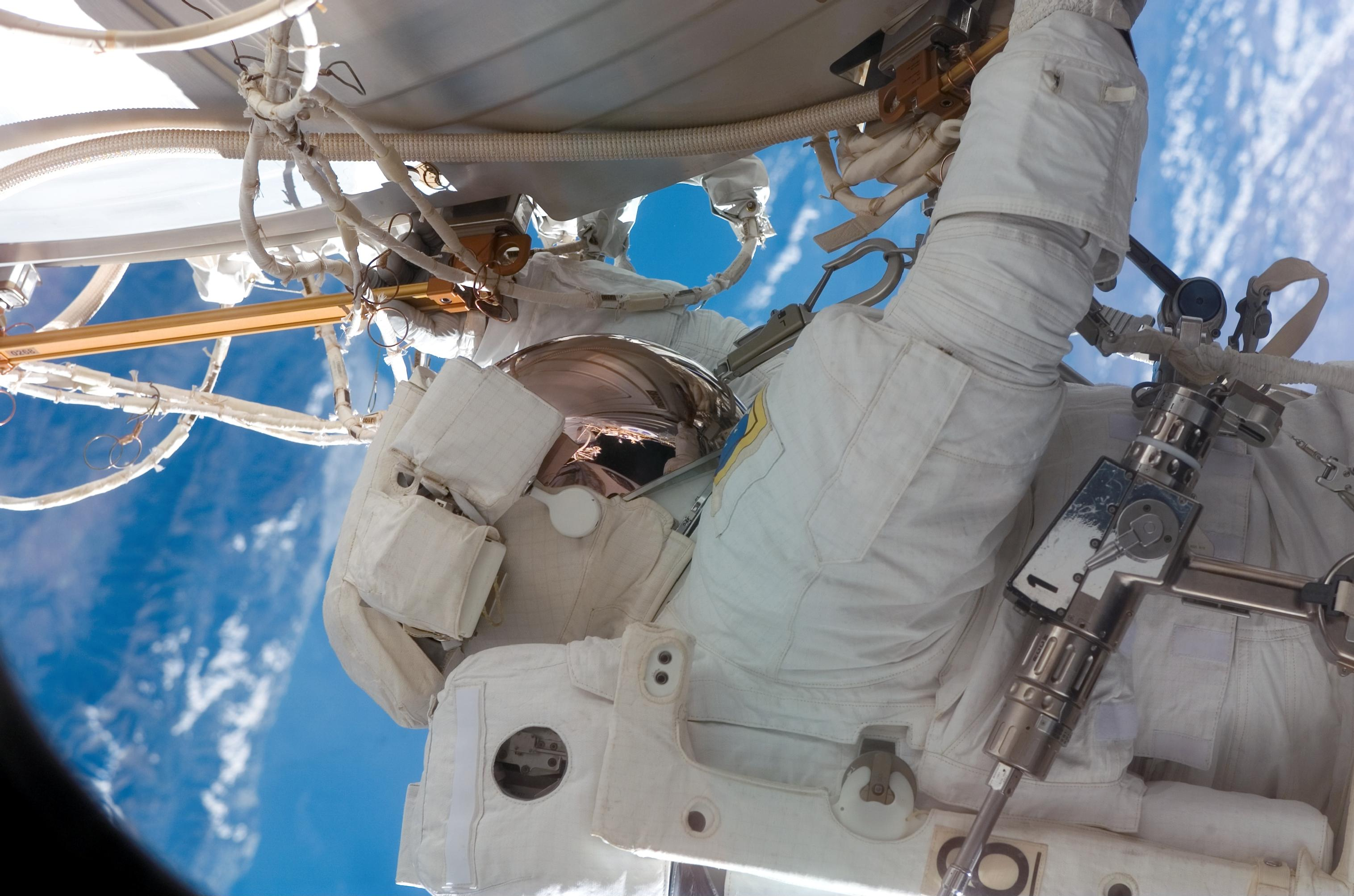 STS-120 mission specialist Doug Wheelock participated in the third scheduled spacewalk as construction continued on the International Space Station. During the spacewalk, Wheelock and astronaut Scott Parazynski (out of frame) installed the P6 truss segment with its set of solar arrays to its permanent home and installed a spare main bus switching.